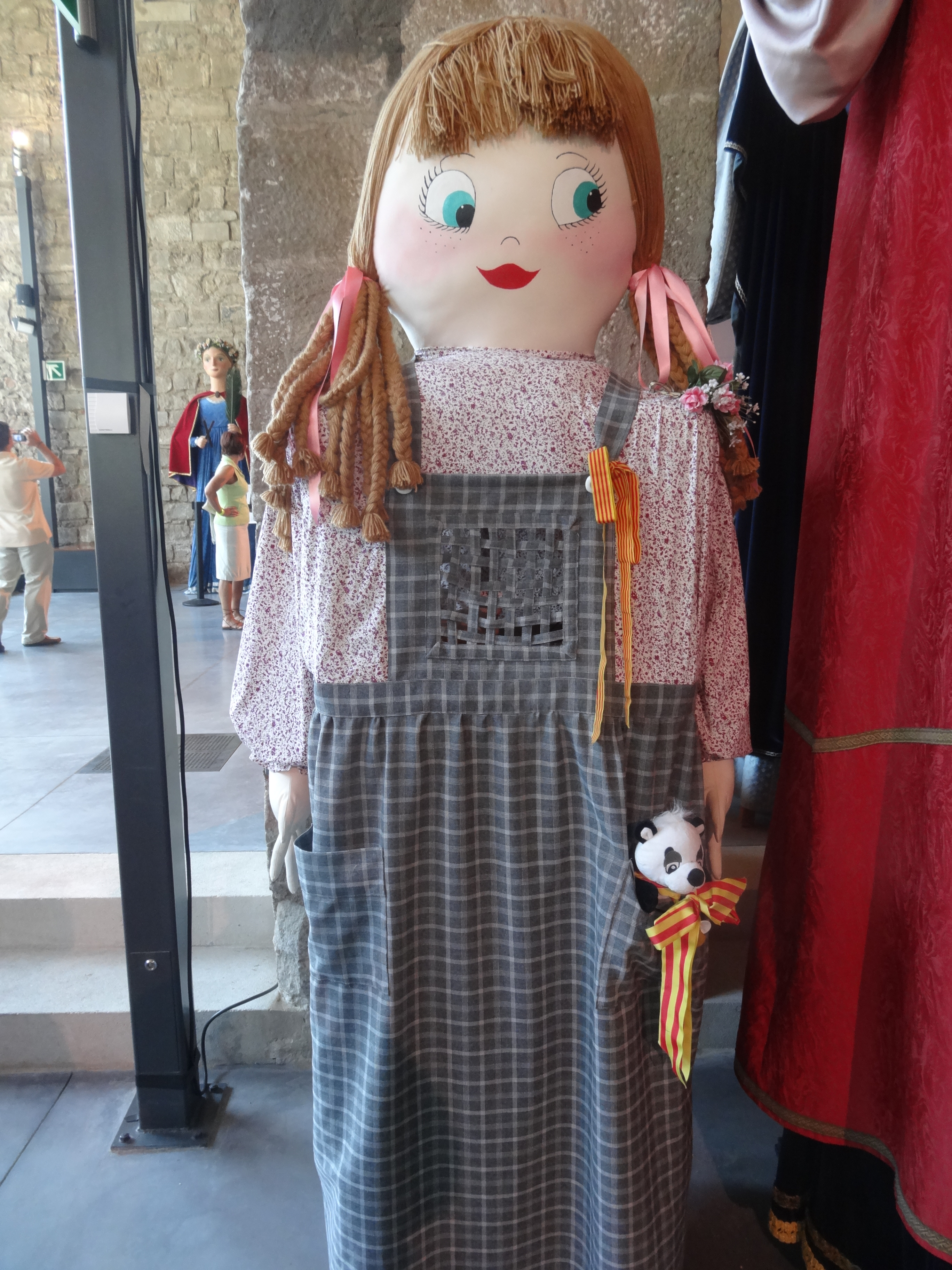 Exhibition of Giants at the Museu Marítim, Barcelona, 2013.